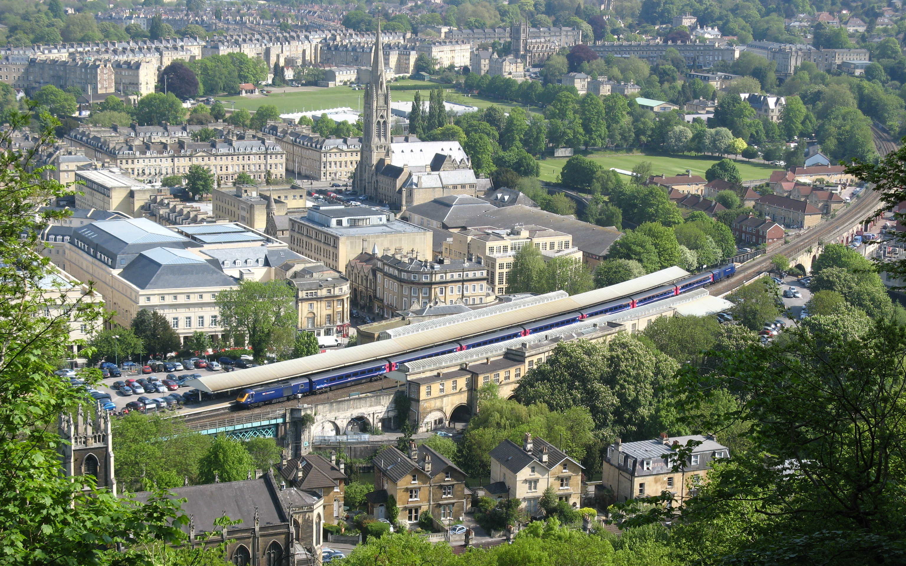 Bath Spa railway station, from Beechen Cliff.